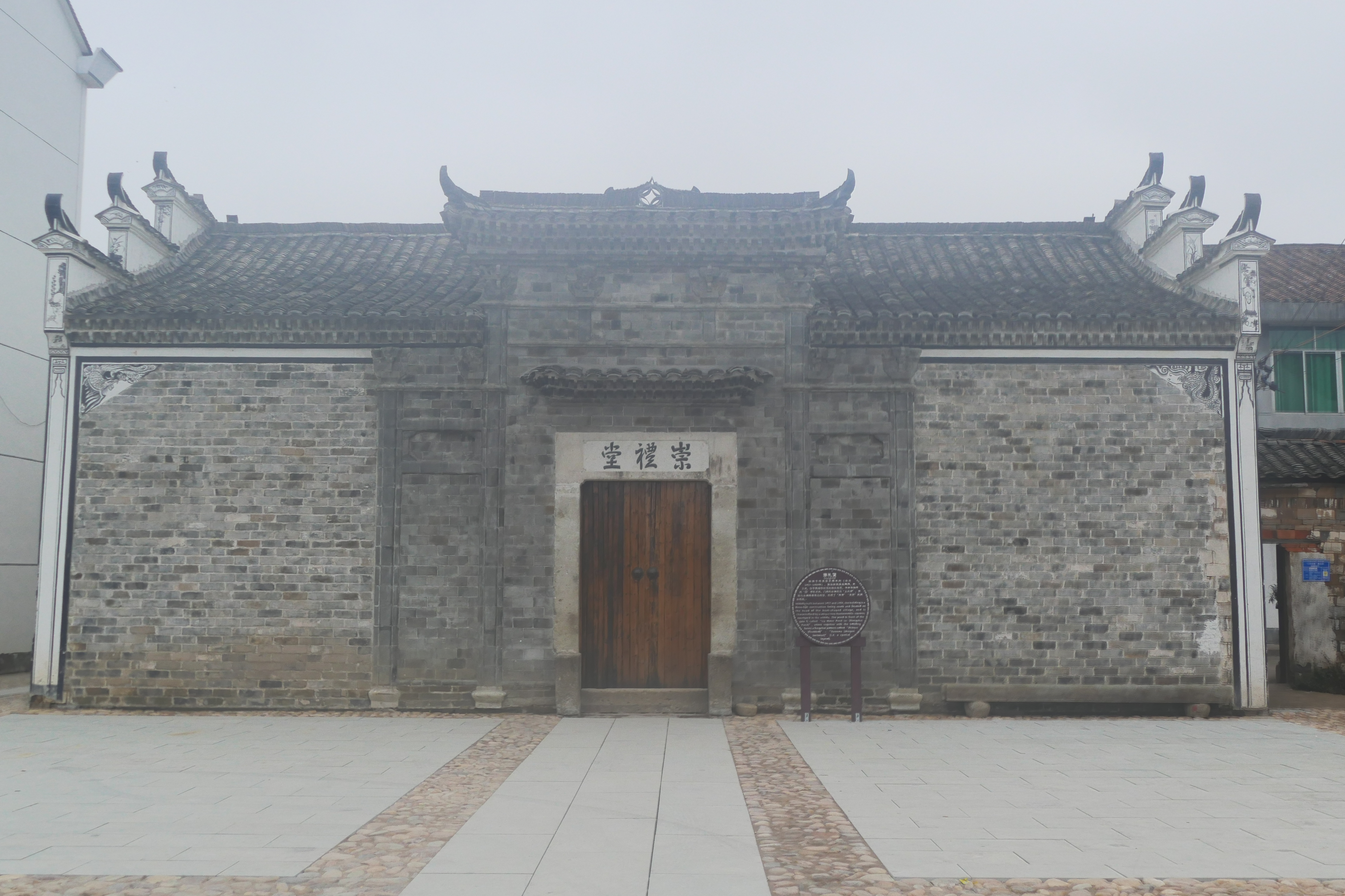 Photo of a historical building in Shangjing